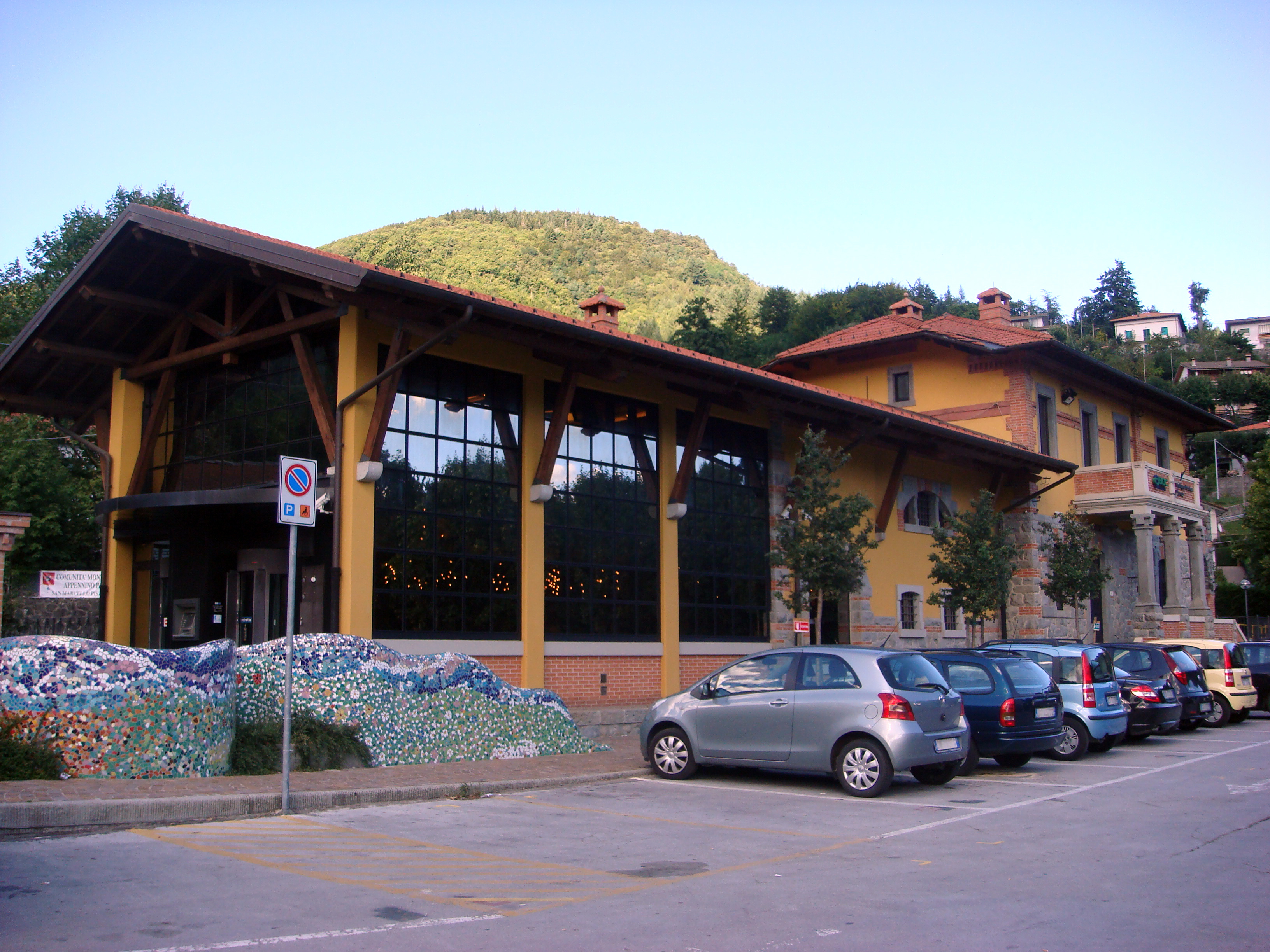 Old station in Maresca